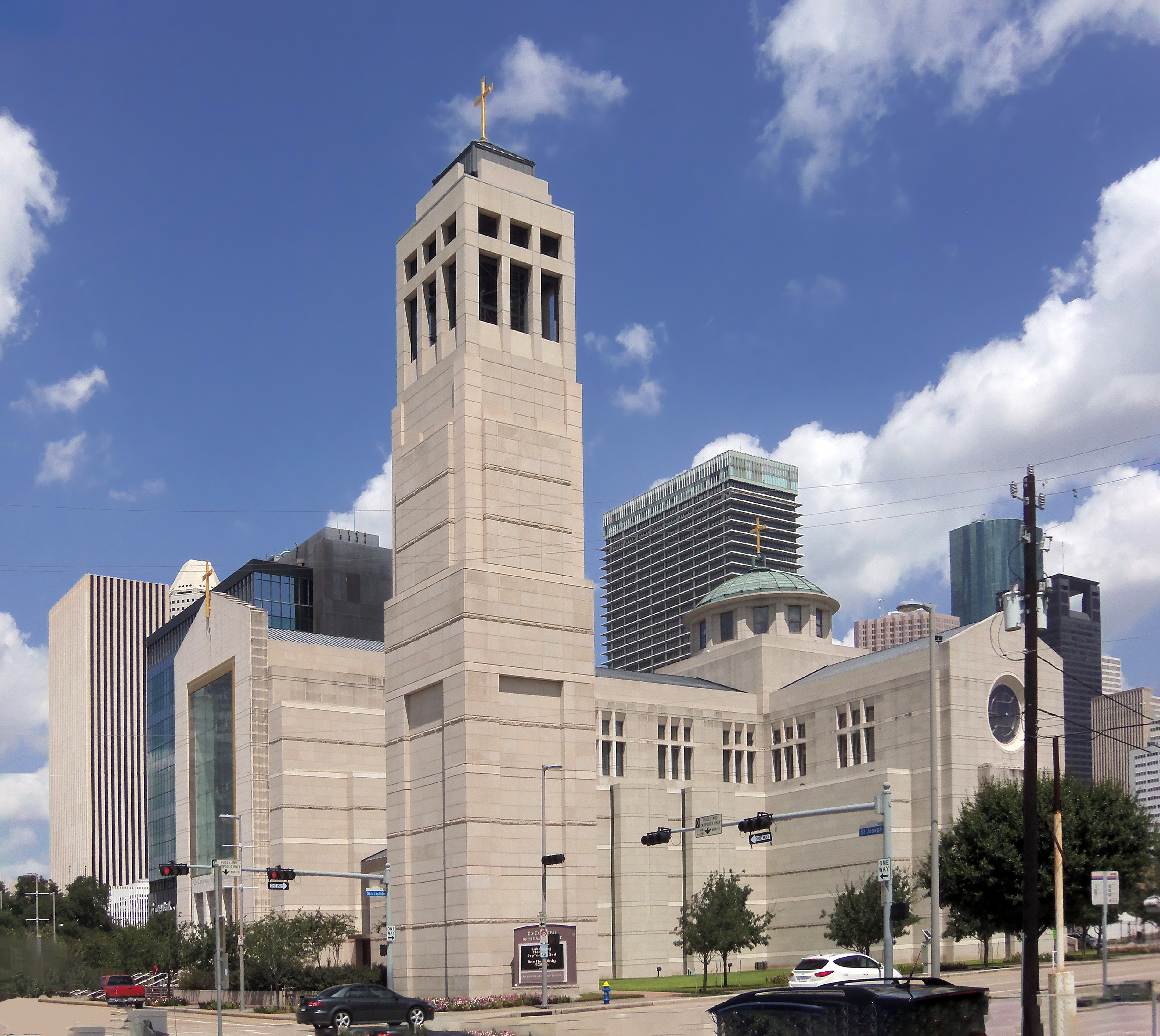 The exterior of the Co-Cathedral of the Sacred Heart in Houston, Texas at from the southeast.